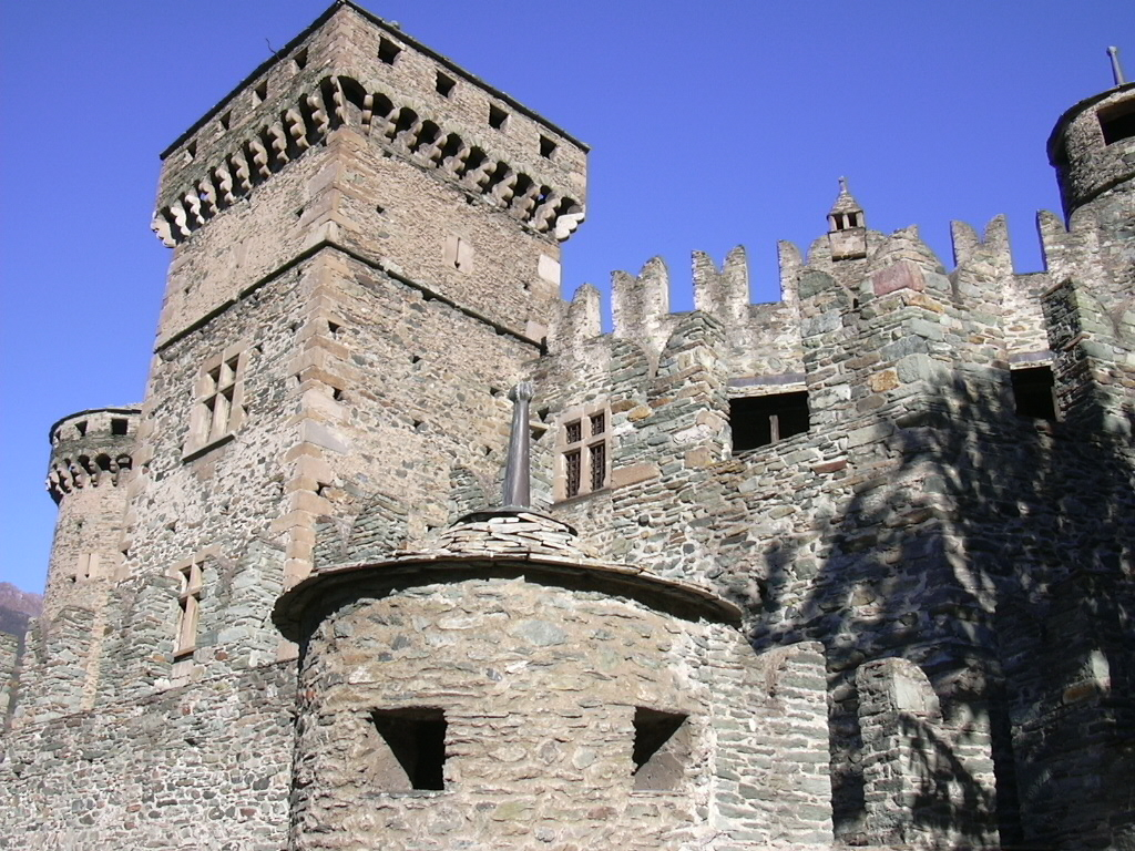 Fenis Castle